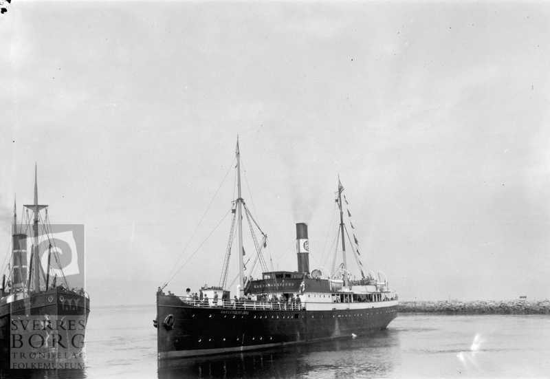 DS Hardangerfjord in Trondheim. 1924.